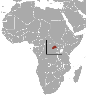 African Dusky Shrew (Crocidura caliginea) range, with national borders added